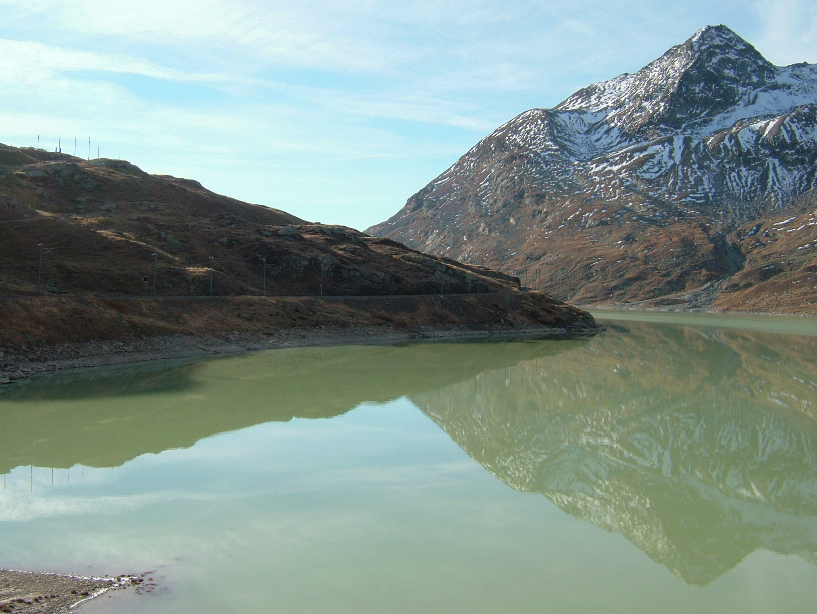 Bernina railwayDeployment between Morteratsch and Bernina Pass with Sassal Mason mirrored in the Lago Bianco (White Lake)